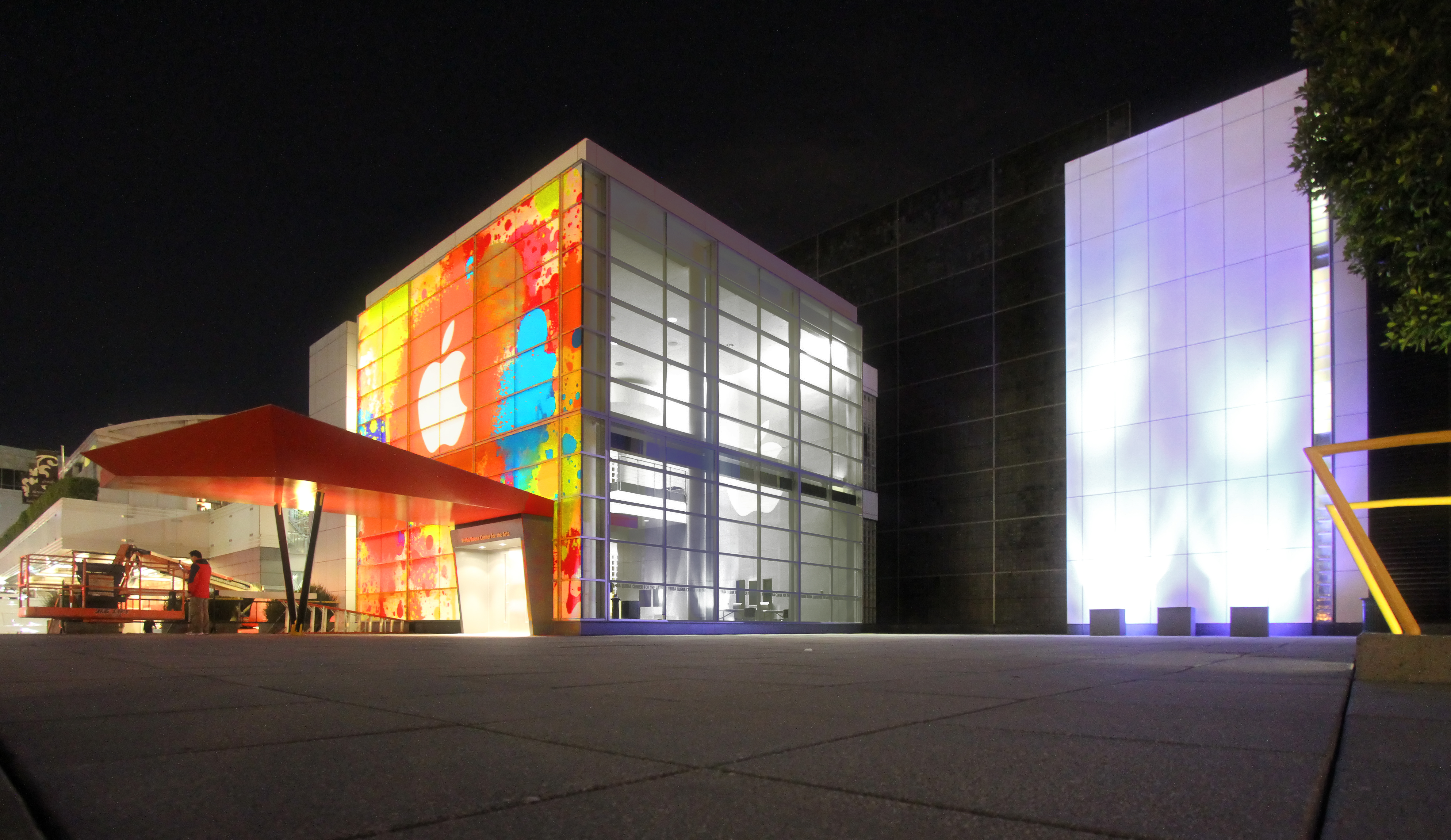 Yerba Buena Center, San Francisco California, at night.